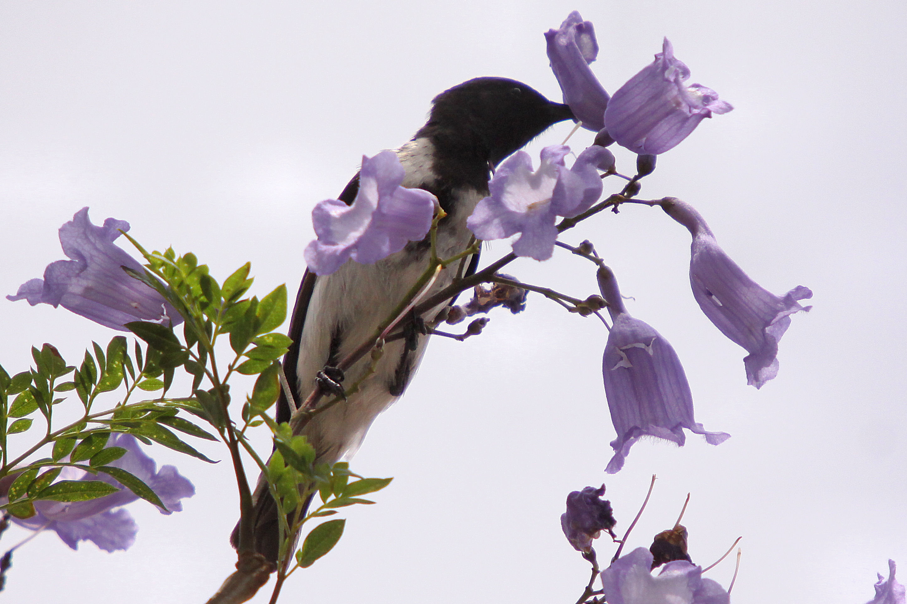 Male Black Honeyeater on a Jacaranda tree. Sandy Hollow, NSW, Australia.